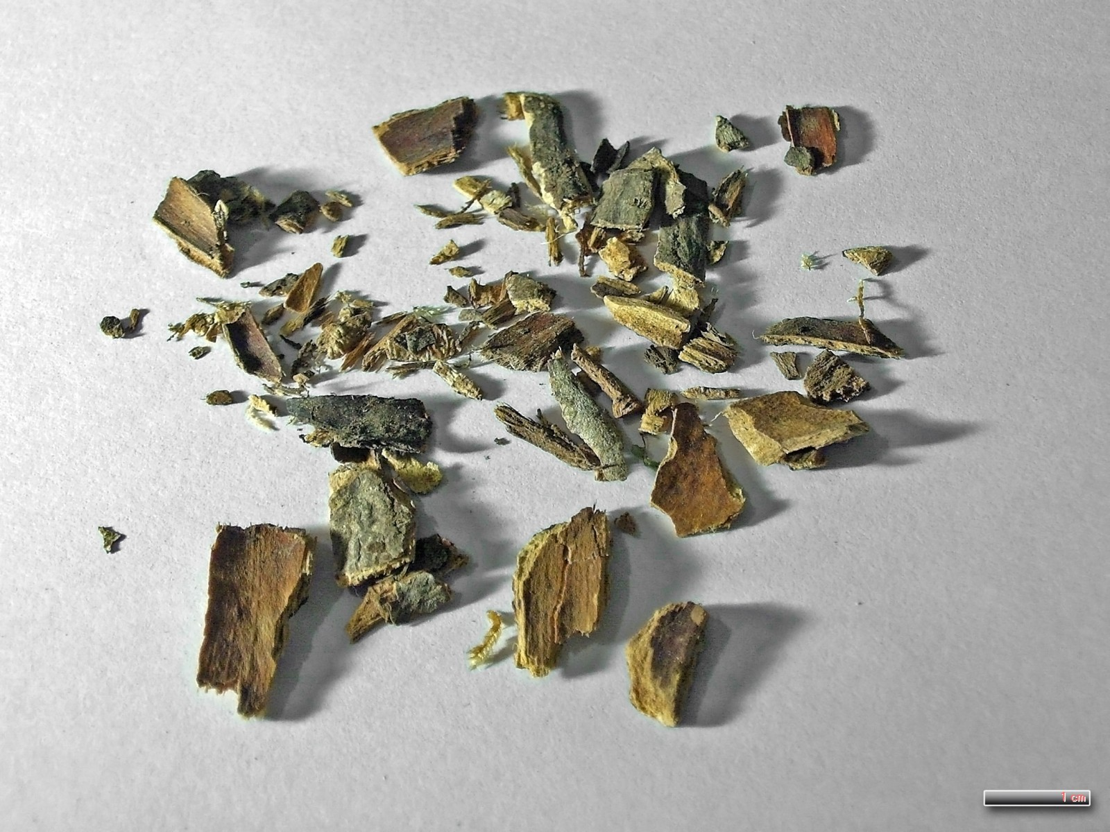 dried Rhamnus purshiana (Cascara Buckthorn, Cascara, Bearberry, and in the Chinook Jargon, Chittam or Chitticum; syn. Frangula purshiana, Rhamnus purshianus) Bark